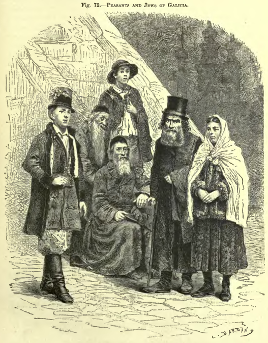 Peasants and jews from Galizia